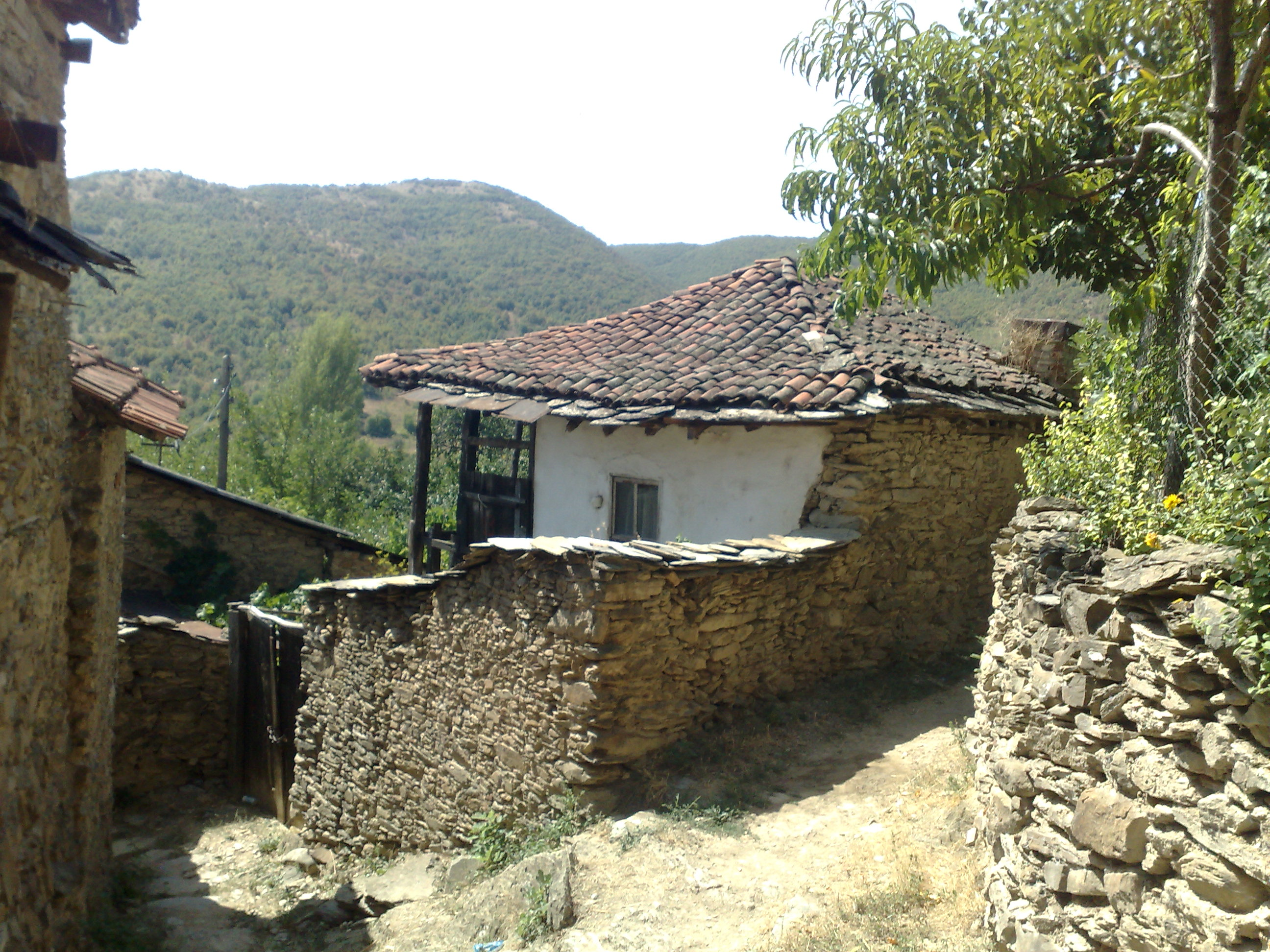 An old Macedonian house in village of S'lp near Veles, Macedonia